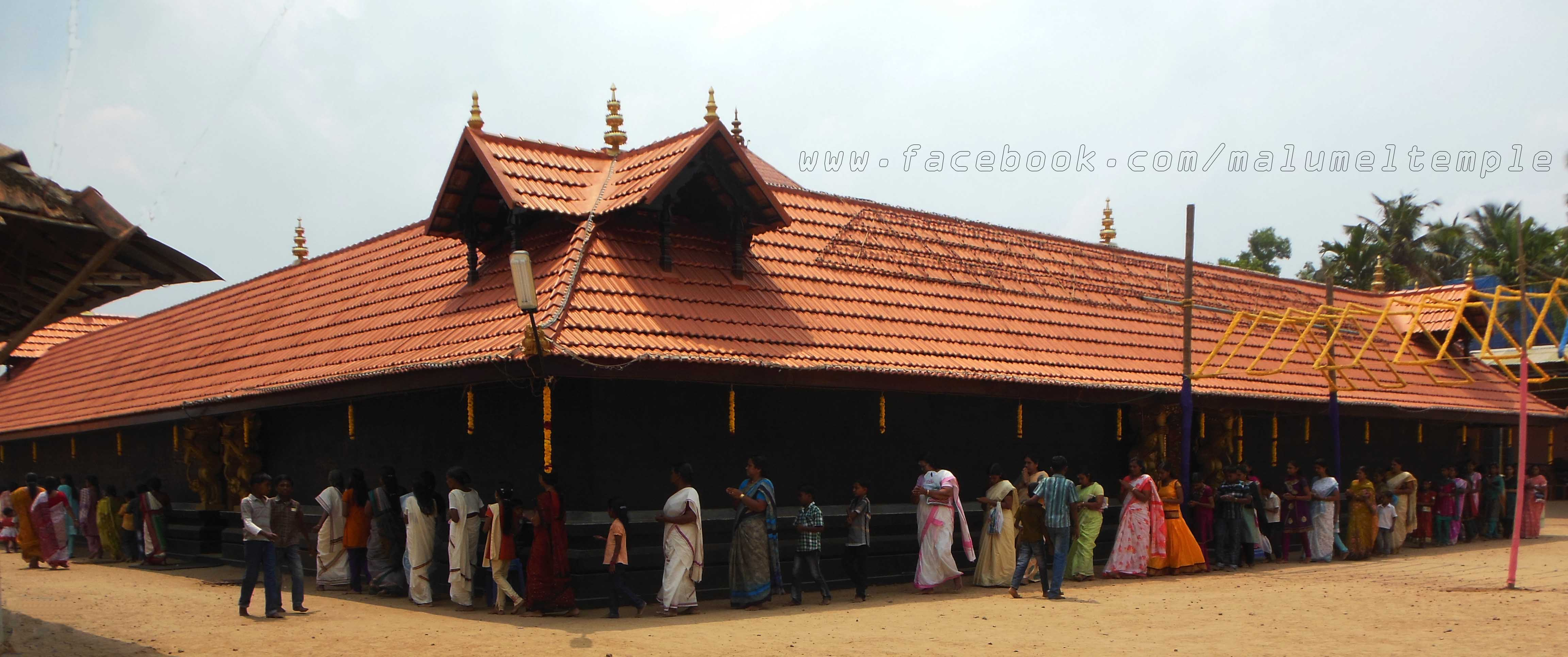 Temple pictures